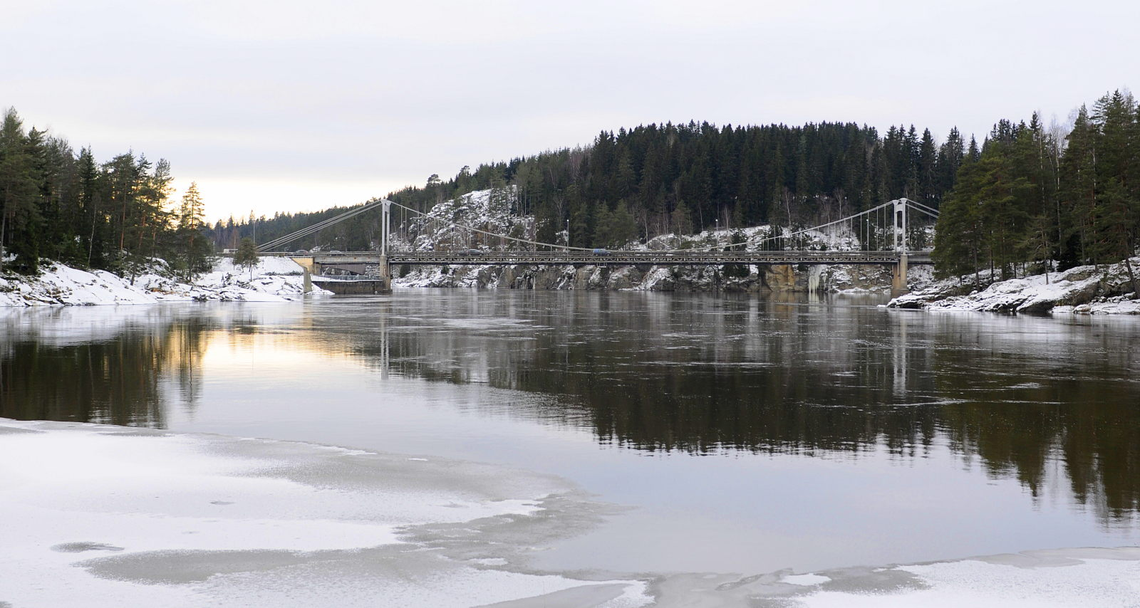 Fossum bro in Østfold, Norway